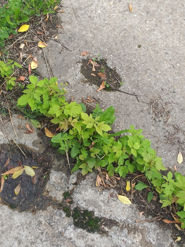 boxelder (Acer negundo), Москва, Россия, 111033